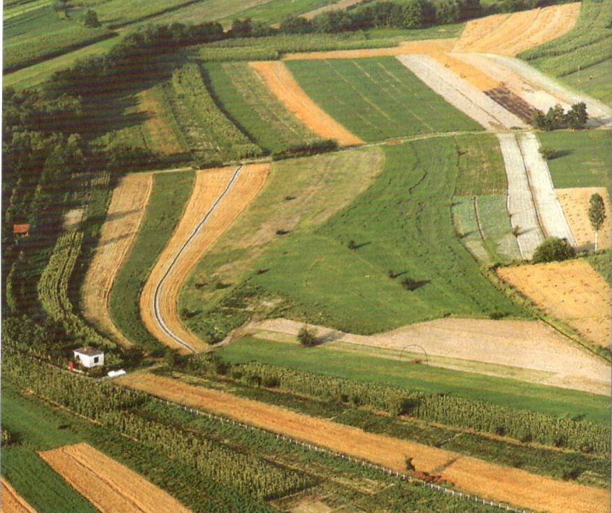 Fields of Polog plain, Macedonia